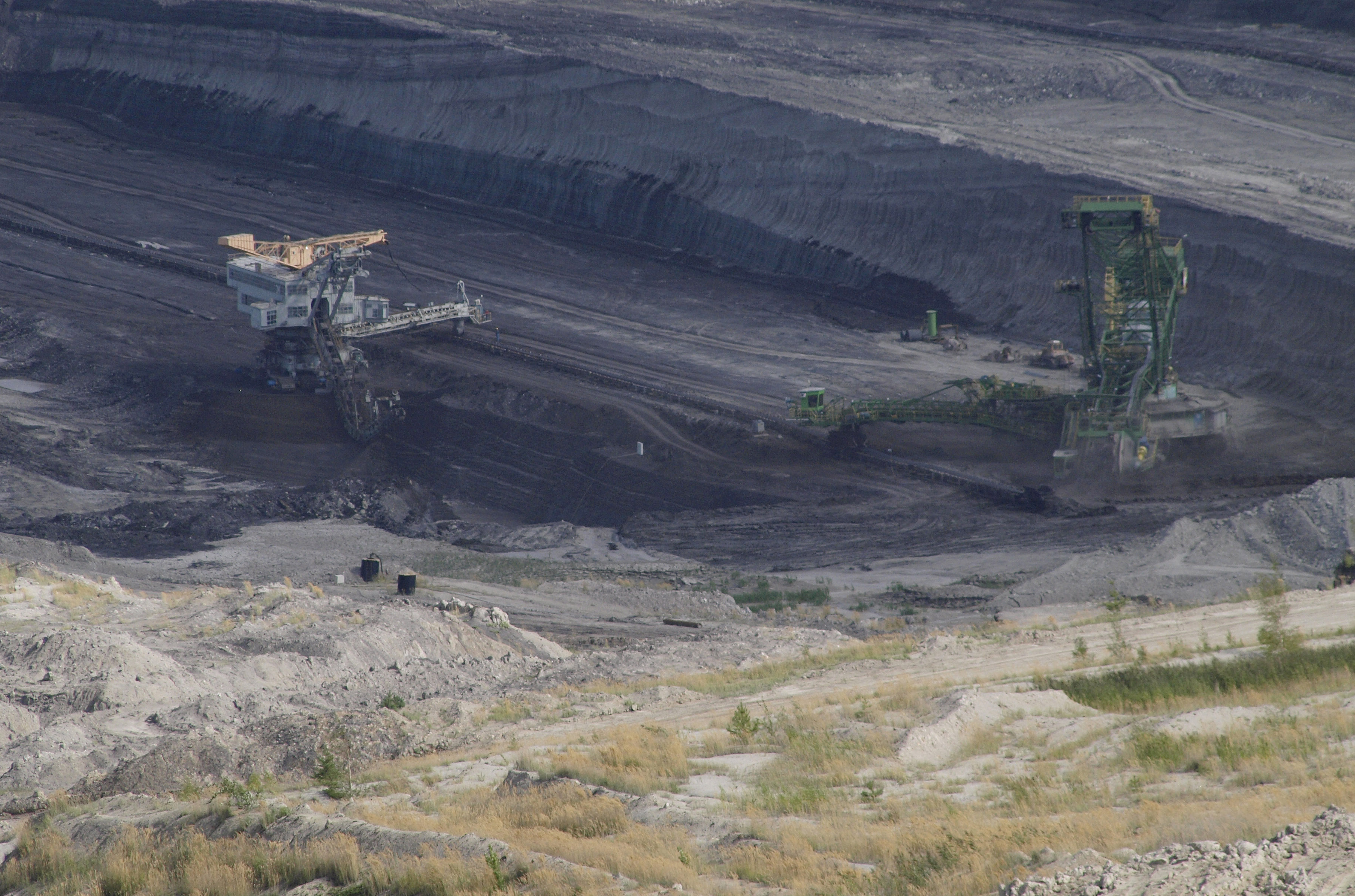 Turow coal mine seen from west in 2012